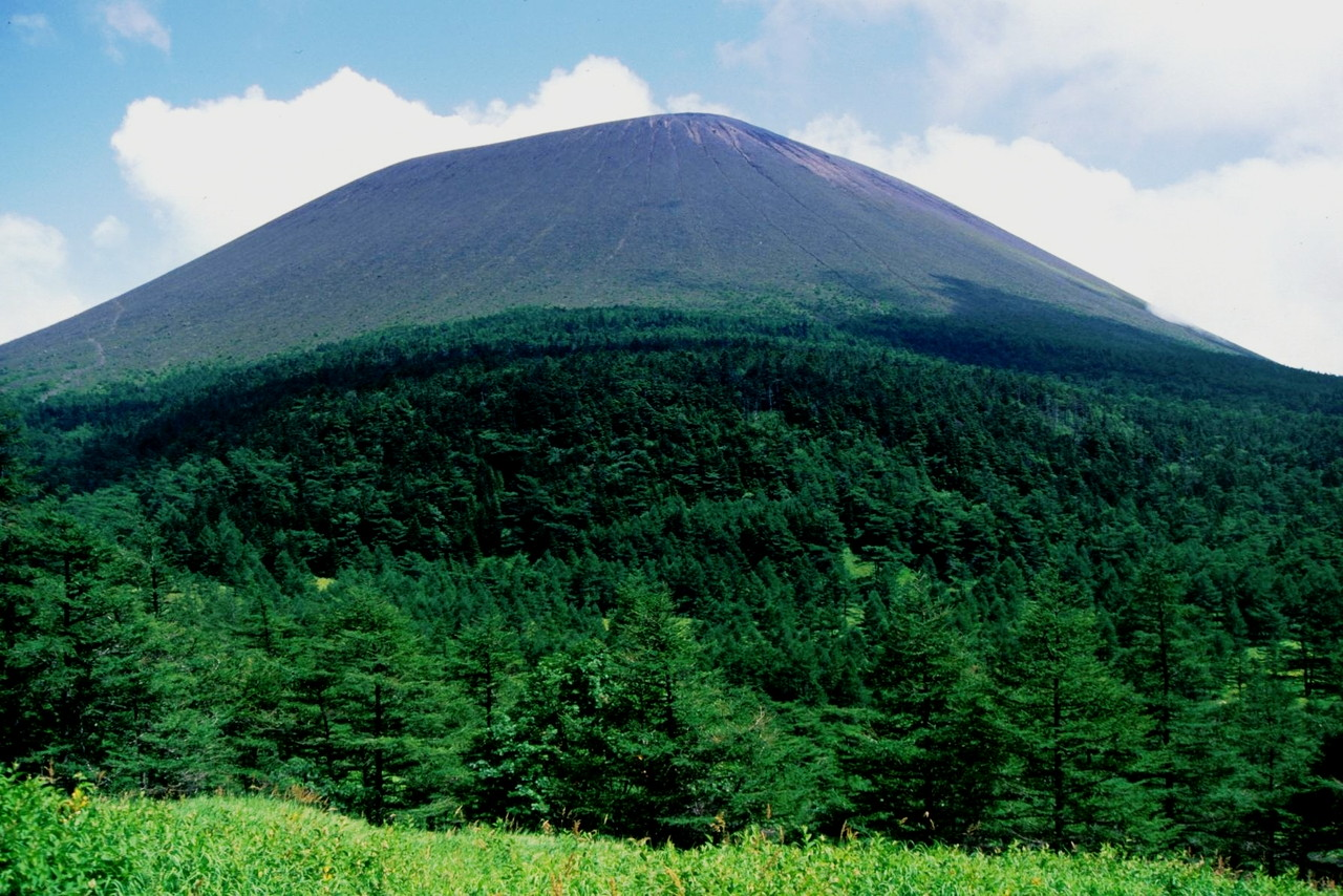 Mount Asama and_Volcanic_gas_1996-9-1